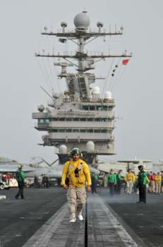 CVN 72 Lincoln from official military Website